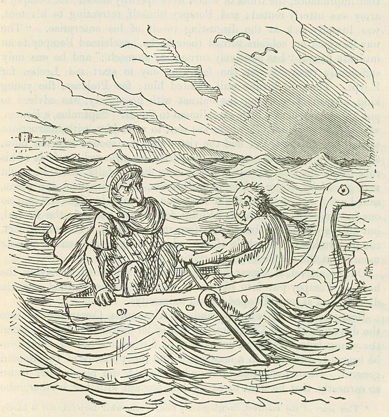 Image by John Leech, from: The Comic History of Rome by Gilbert Abbott A Beckett. Bradbury, Evans & Co, London, 1850s „Quid times? Caesar vehis.“